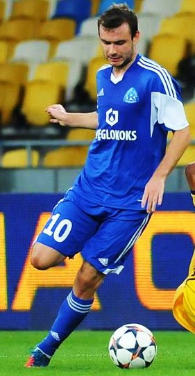 Filip Starzyński